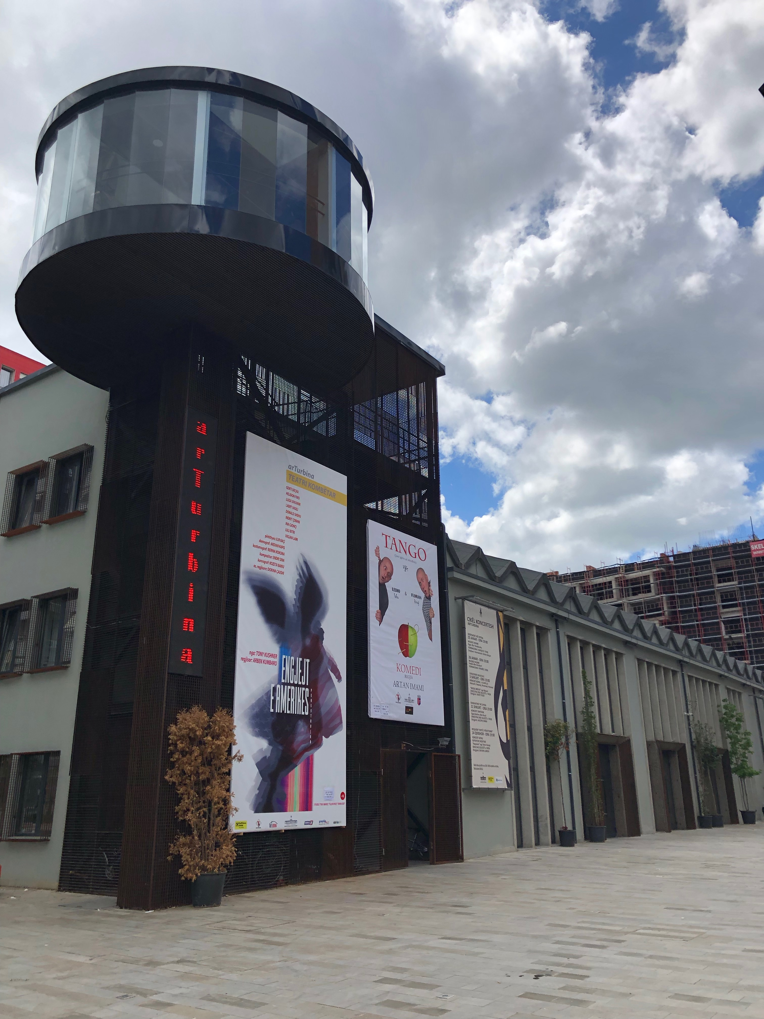 The new Artturbina theatre of Tirana